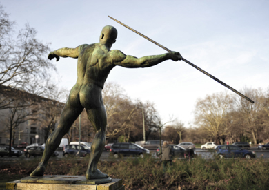 Karl Möbius: Javelin Thrower (1921), 1944 melted, Grouting 1954, rear view